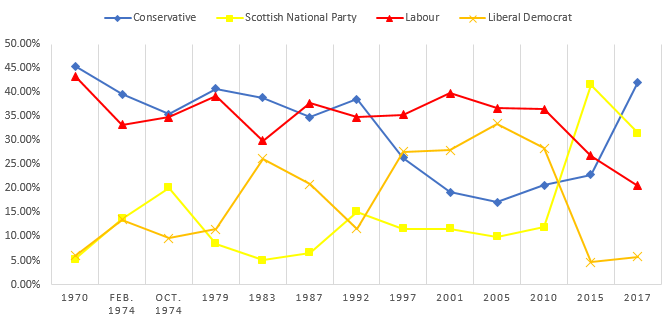 Electoral results by party in the UK constituency of Aberdeen South.